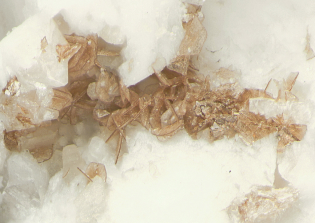 Cerite-(Ce) (picture width: 3.2 x 2.2 mm) Locality: Poudrette quarry (Demix quarry; Uni-Mix quarry; Desourdy quarry), Mont Saint-Hilaire, Rouville RCM, Montérégie, Québec, Canada